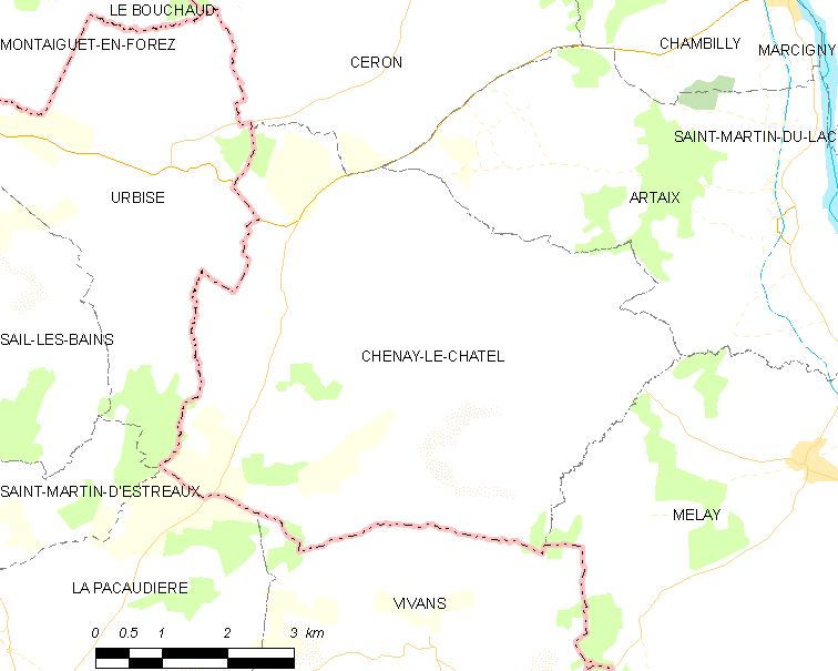 Map of French municipality